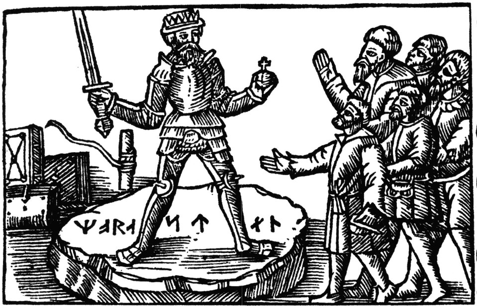 Picture of drawing of king's election